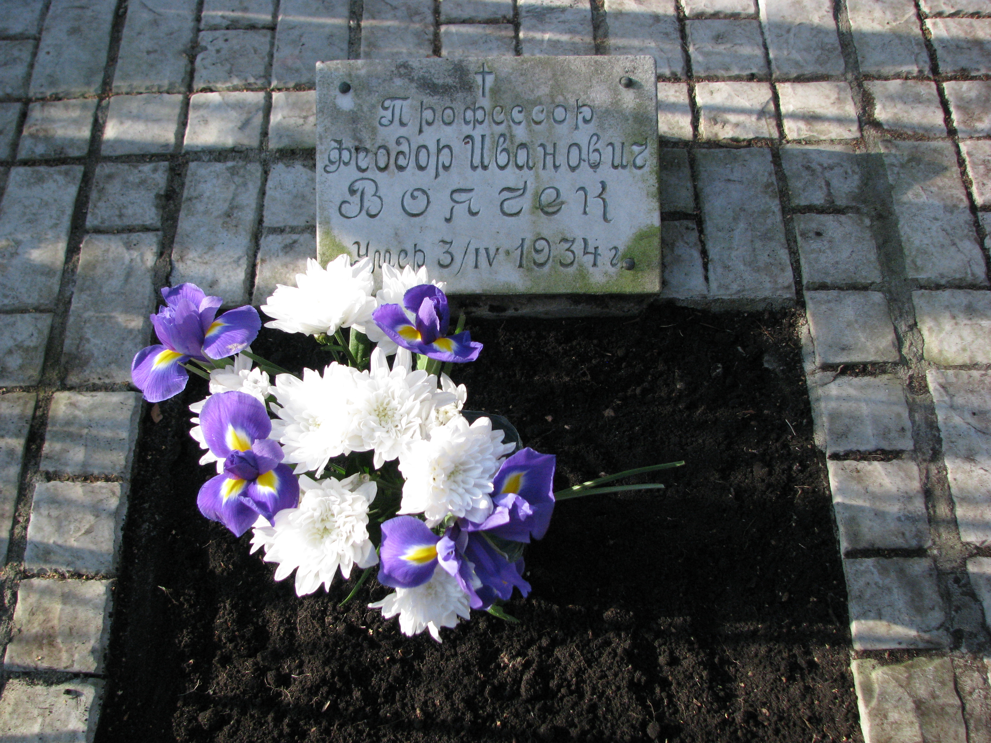 Grave of Bohumil Vojáček in Lukyanivske Cemetery, Kiev.